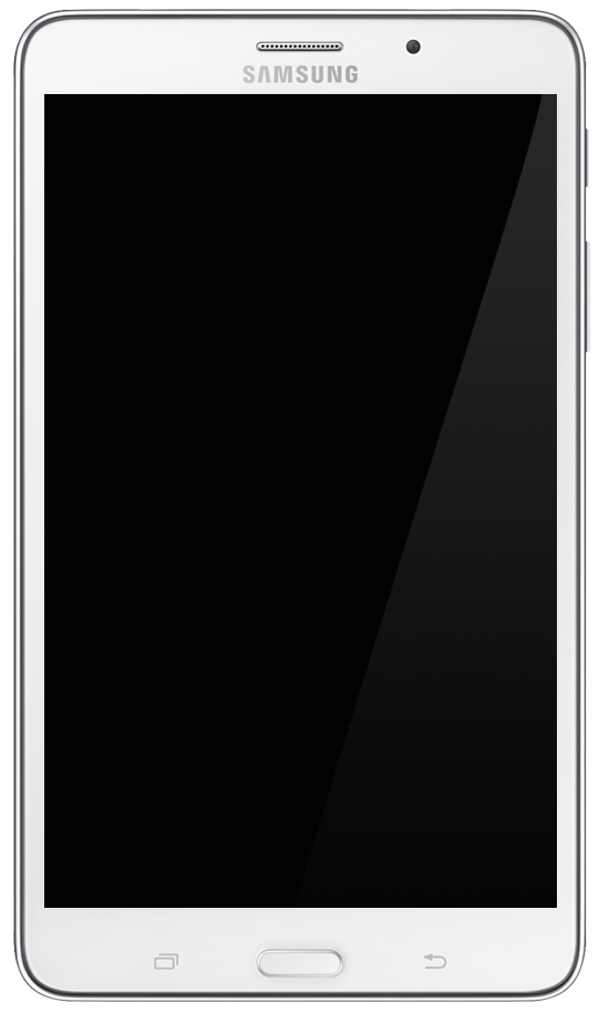 Samsung Galaxy Tab 4 7.0 render